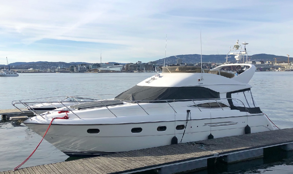 Princess yacht in 45 feet